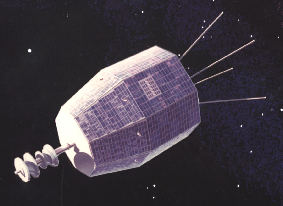 Artist's vision of NASA Relay 1 satellite